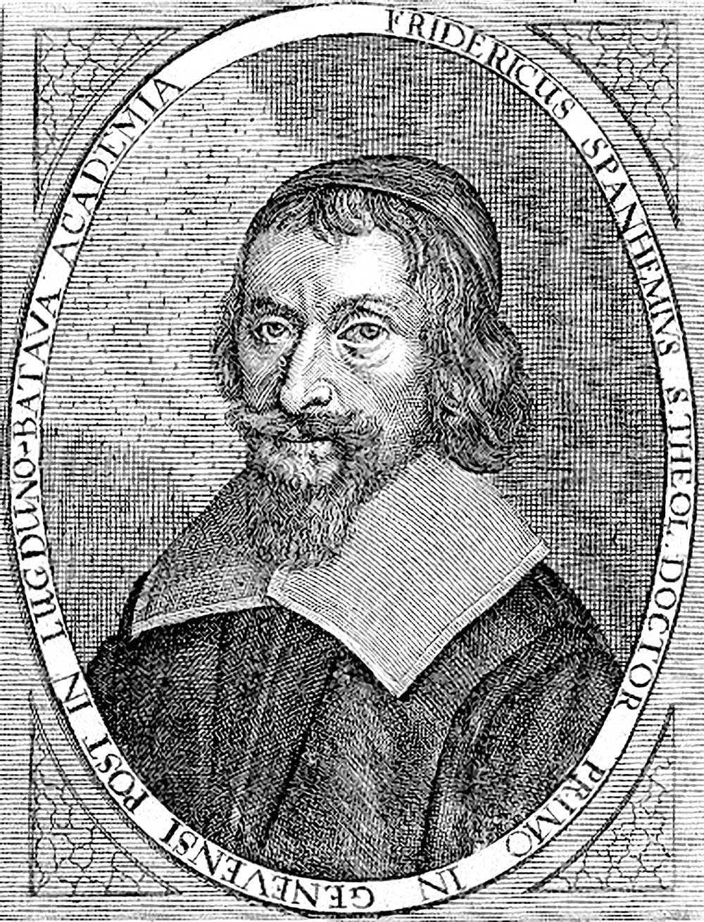 Friedrich Spanheim the Elder (1600-1649) German Reformed theologian